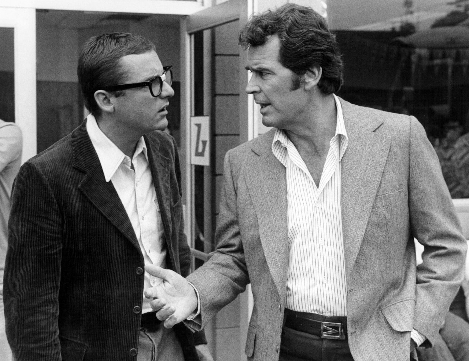 Photo of James Garner as Jim Rockford and James Whitmore, Jr. as Freddie Beamer from the television program The Rockford Files. Whitmore's character appeared on the program periodically as an auto mechanic who dabbled in being a private eye.